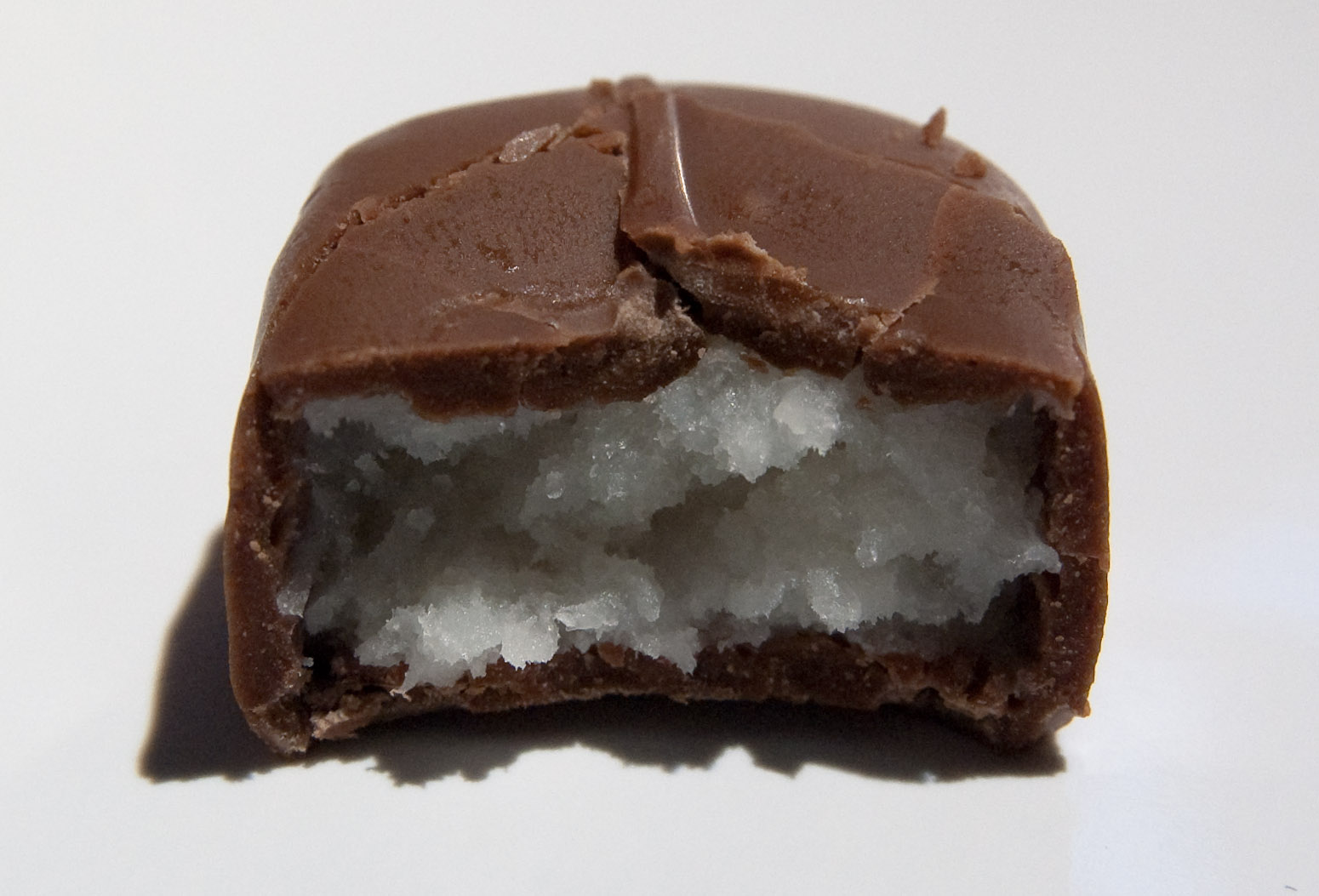 Bounty (Chocolate barI